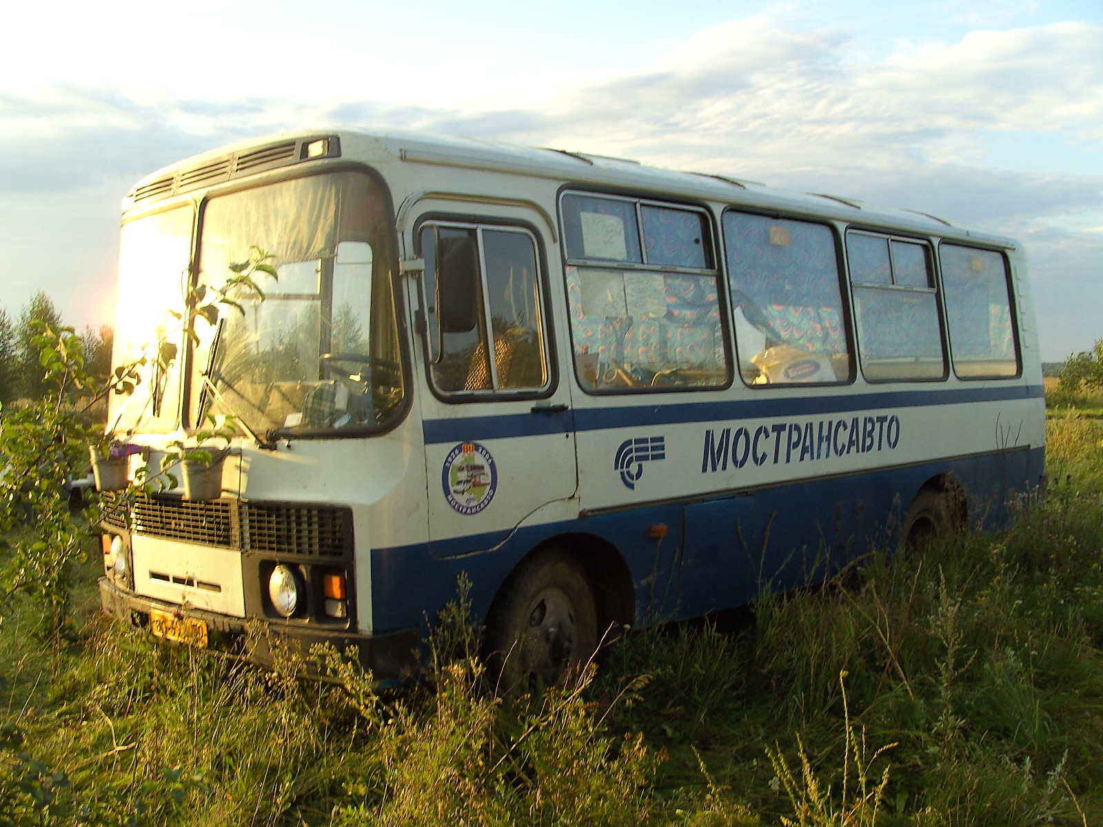 A bus of the bus company Mostransavto in western Russia.